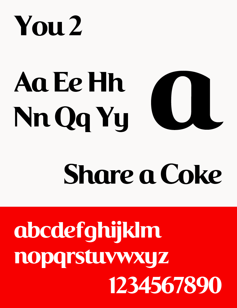 Sample of "You 2" (typeface made for the "Share a Coke" campaign by Coca-Cola)